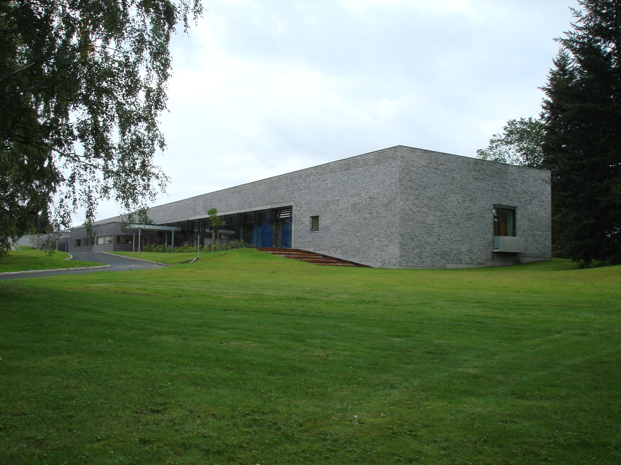 Alfaset crematory in Oslo